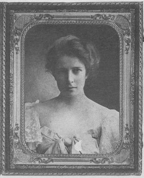 Zulime Taft Garland (1870-1952)